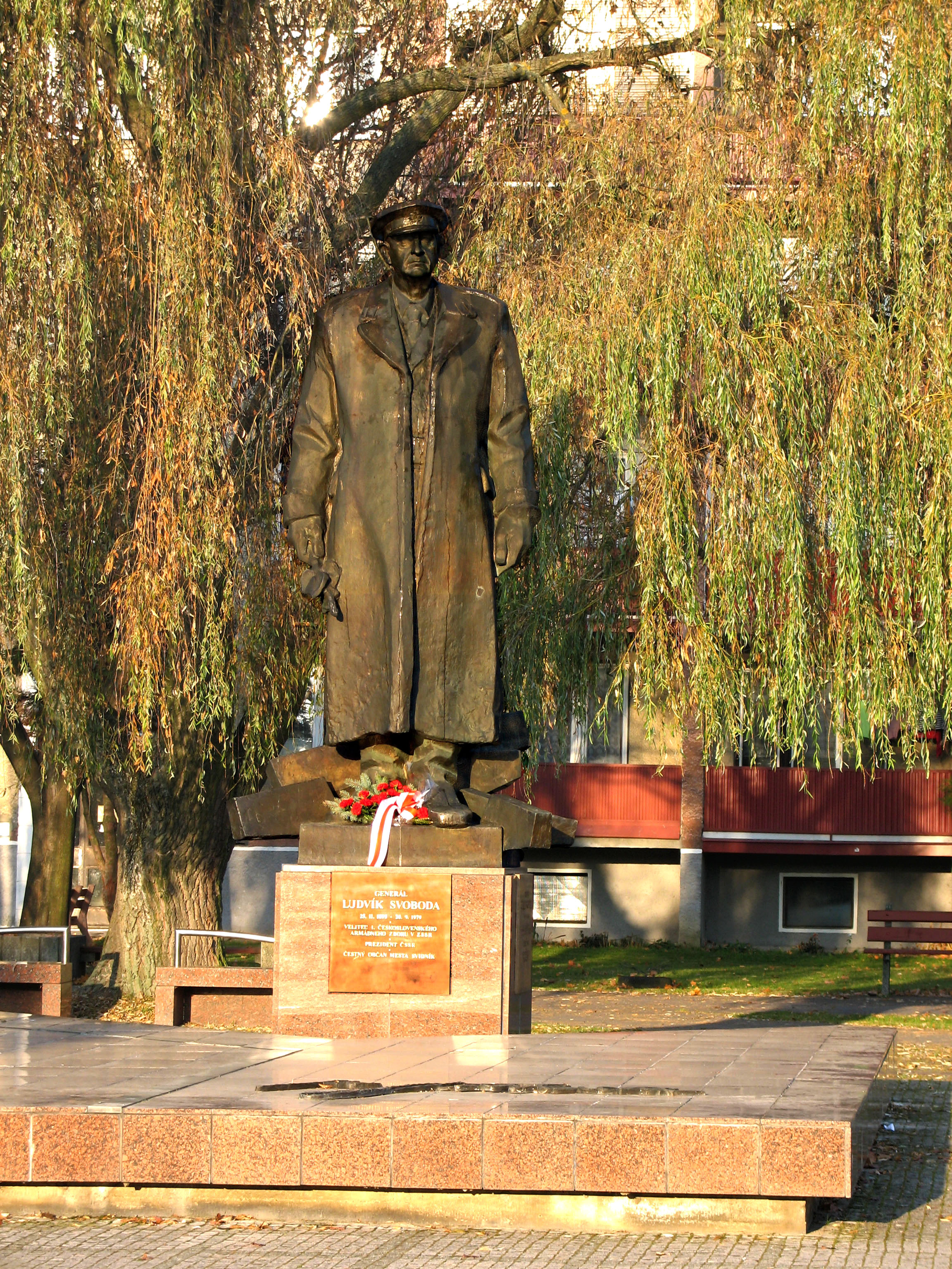 The bronze sculpture, memorial Ludvik Svoboda, Svidnik, Slovakia